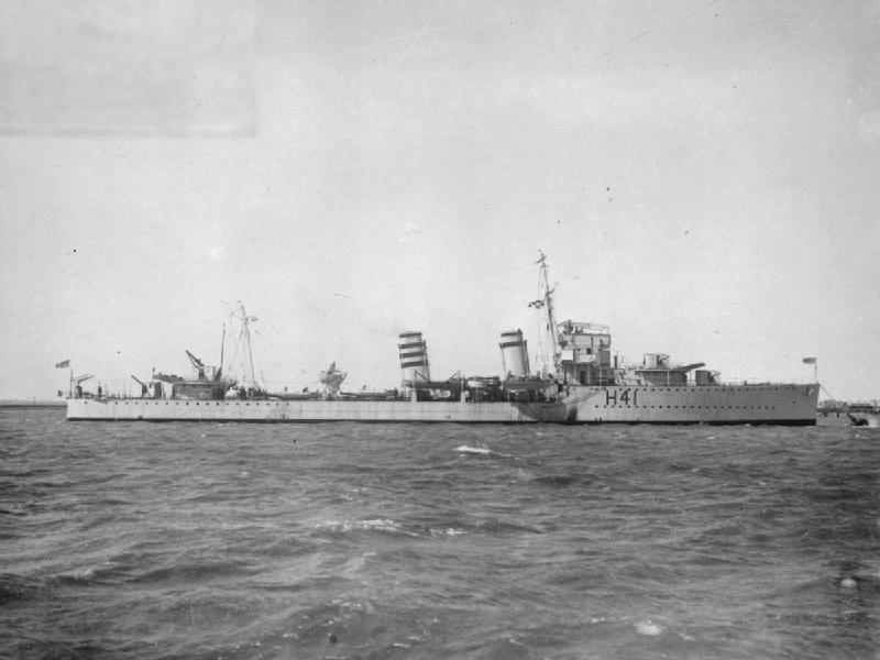 British destroyer HMS ARDENT at a buoy on completion. Pennant No H41